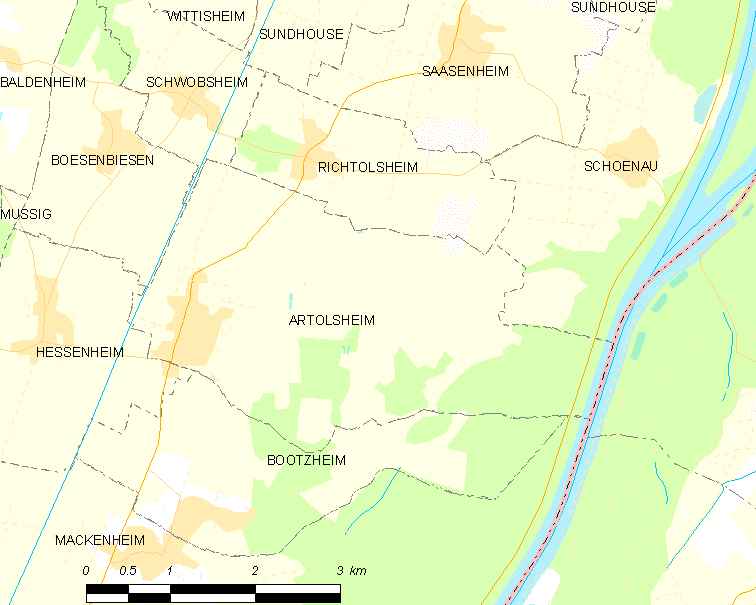 Map of French municipality